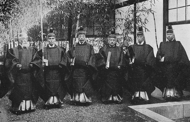 Ceremonial attendants of Dokusho-Meigen